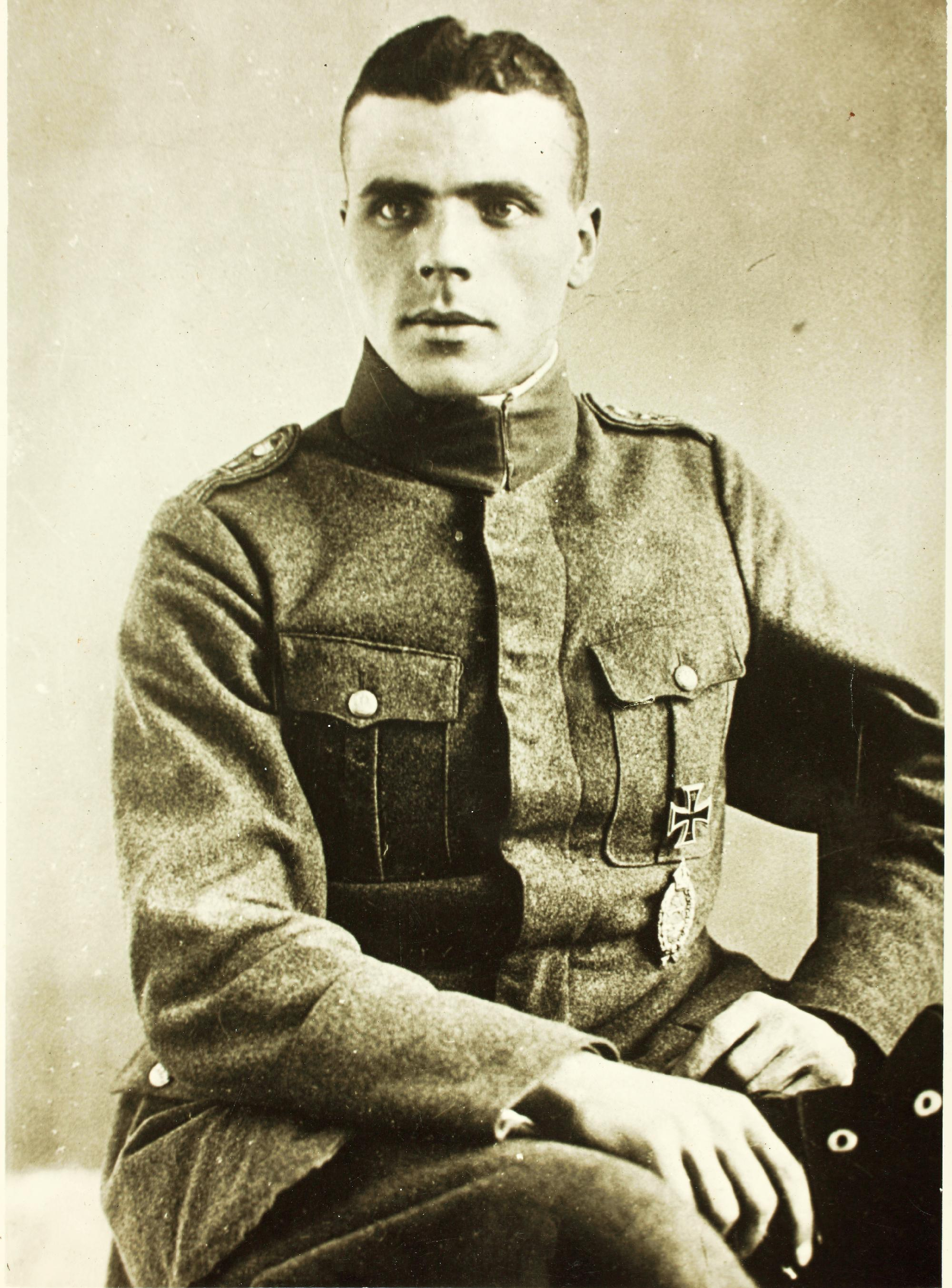 Catalog #: 10_0017294 Title: World War One German Aviator Lt. Fritz Putter Date: 1914-1918 Additional Information: World War One German Aviator Lt. Fritz Putter Tags: World War One German Aviator Lt. Fritz Putter , World War One German Aviator Lt. Fritz Putter , 1914-1918 Repository: San Diego Air and Space Museum Archive